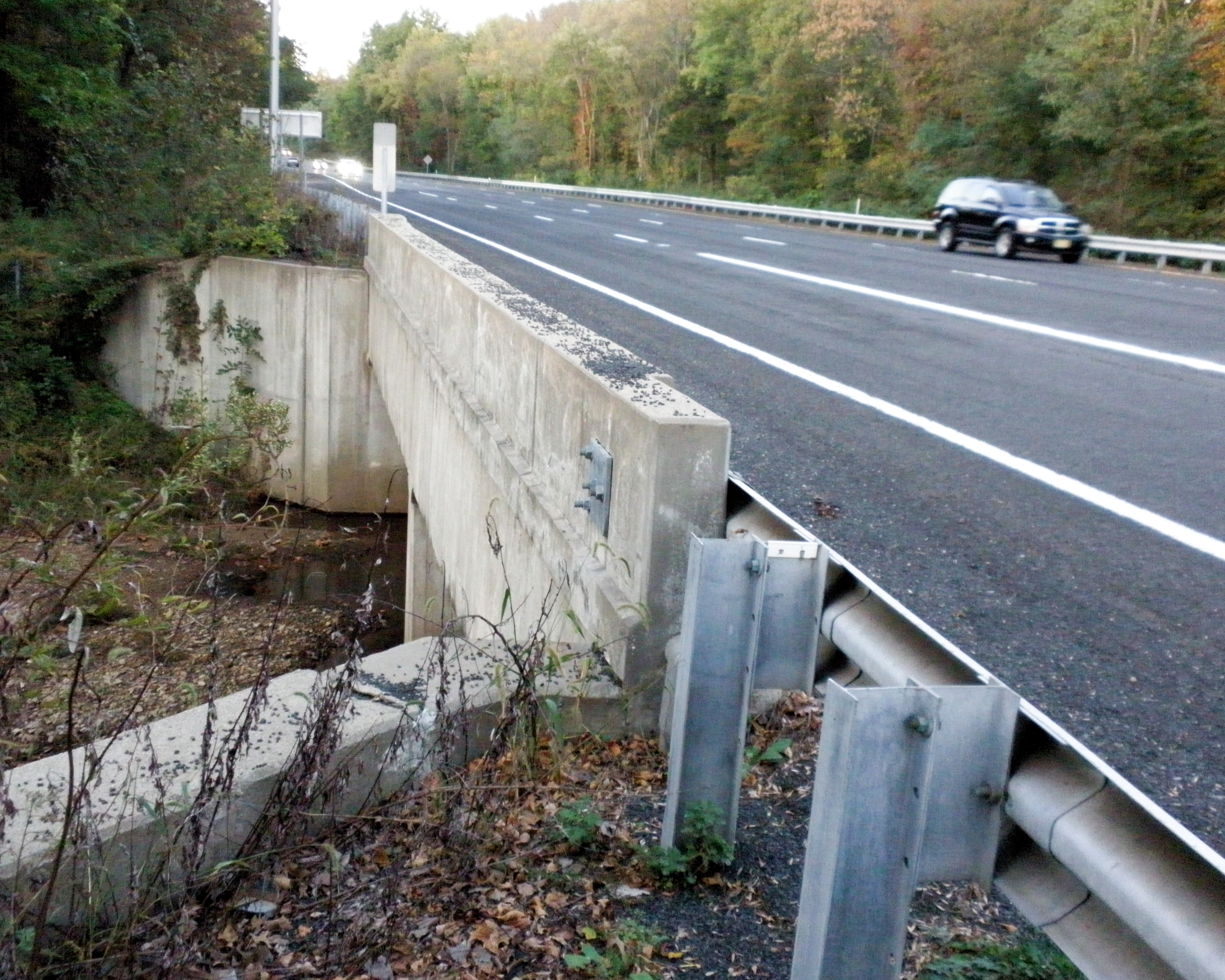 Interstate Highway 287 Southbound Bridge over the Passaic River, Basking Ridge Bernards - Harding Township, New Jersey (looking north)